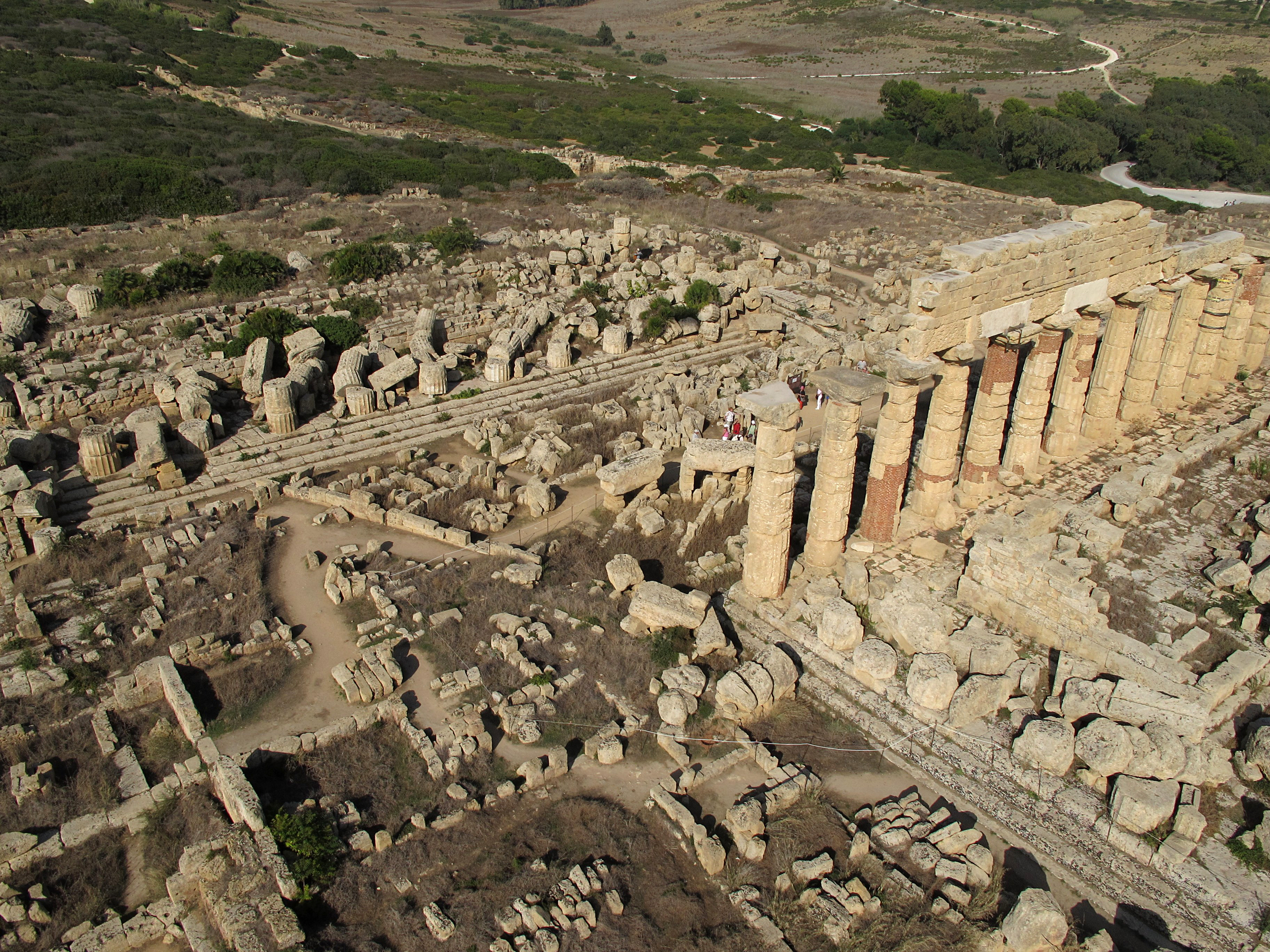 Selinunte (Sicily): Settlement structures on the acropolis. In the foreground the northwestern corner of Temple C, in the background Temple D. View to Northeast. Picture taken by kite aerial photography (KAP).